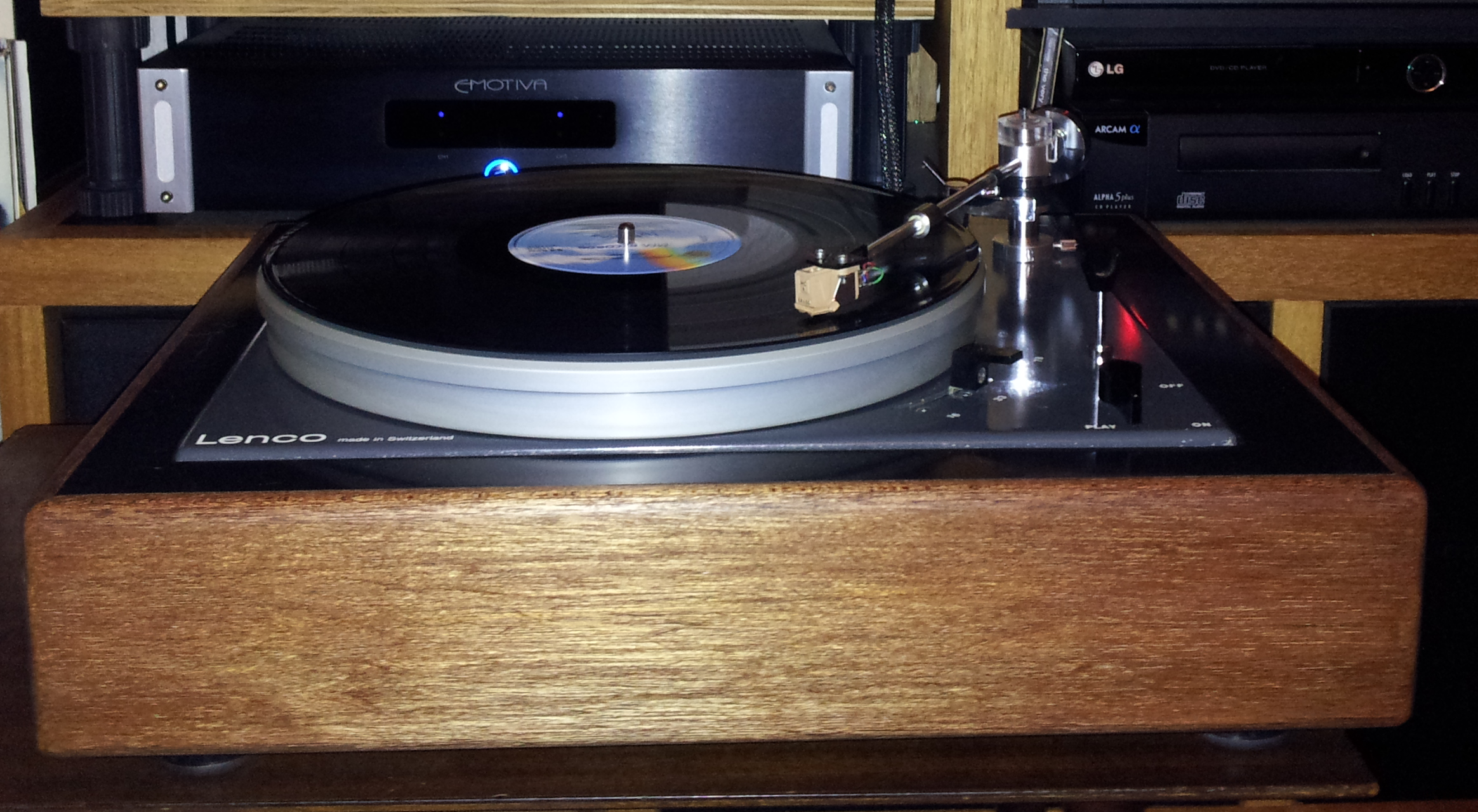 Lenco B52/L70 Mayware Formula IV Tonearm Grado MC+ Tan cartridge